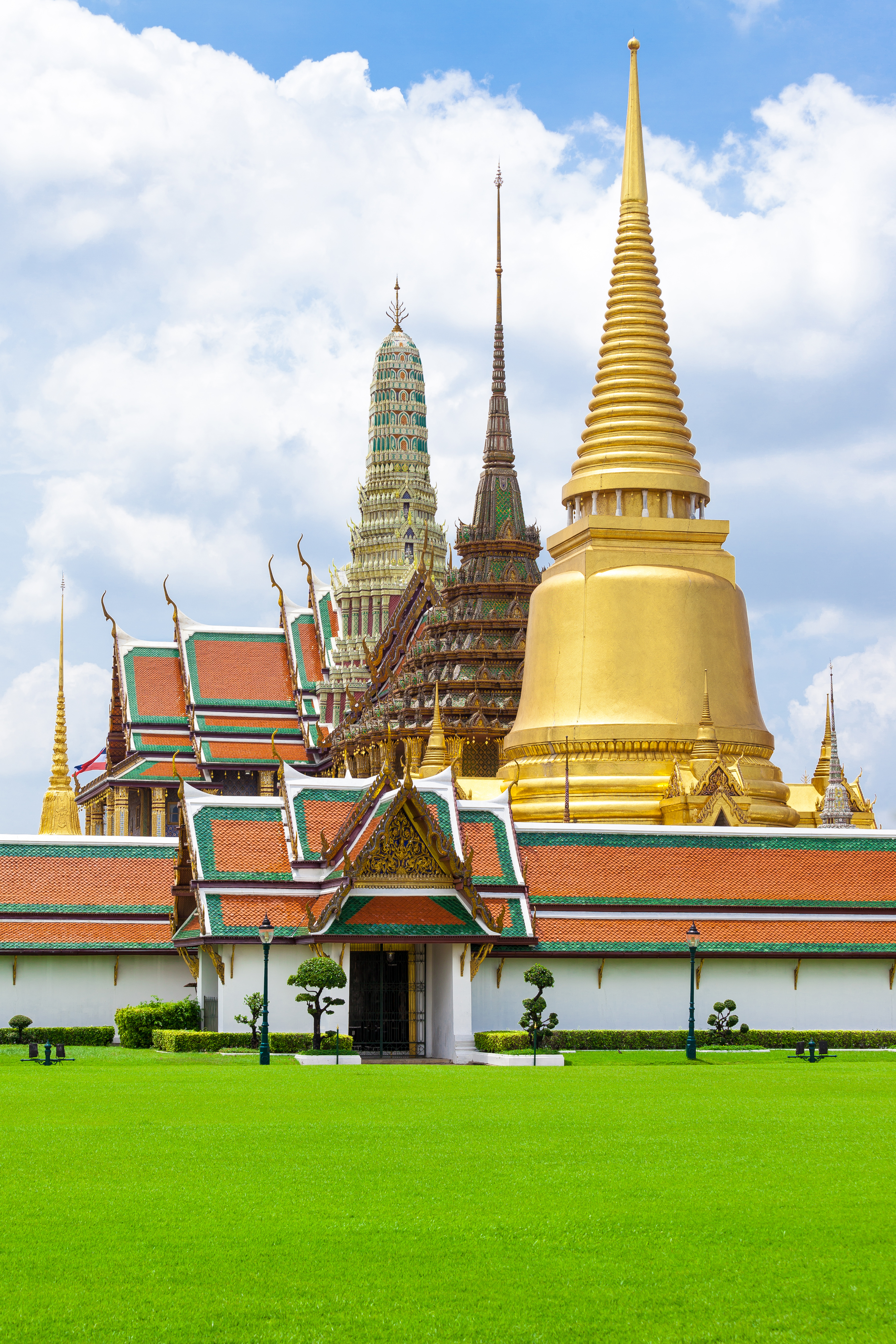 The Three style of Chedis at Wat Phra Kaew, Bangkok.